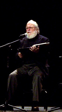 Prof. Peter Schickele at the Outer Banks Forum Saturday, 27 March 2010 (cropped version of this picture).